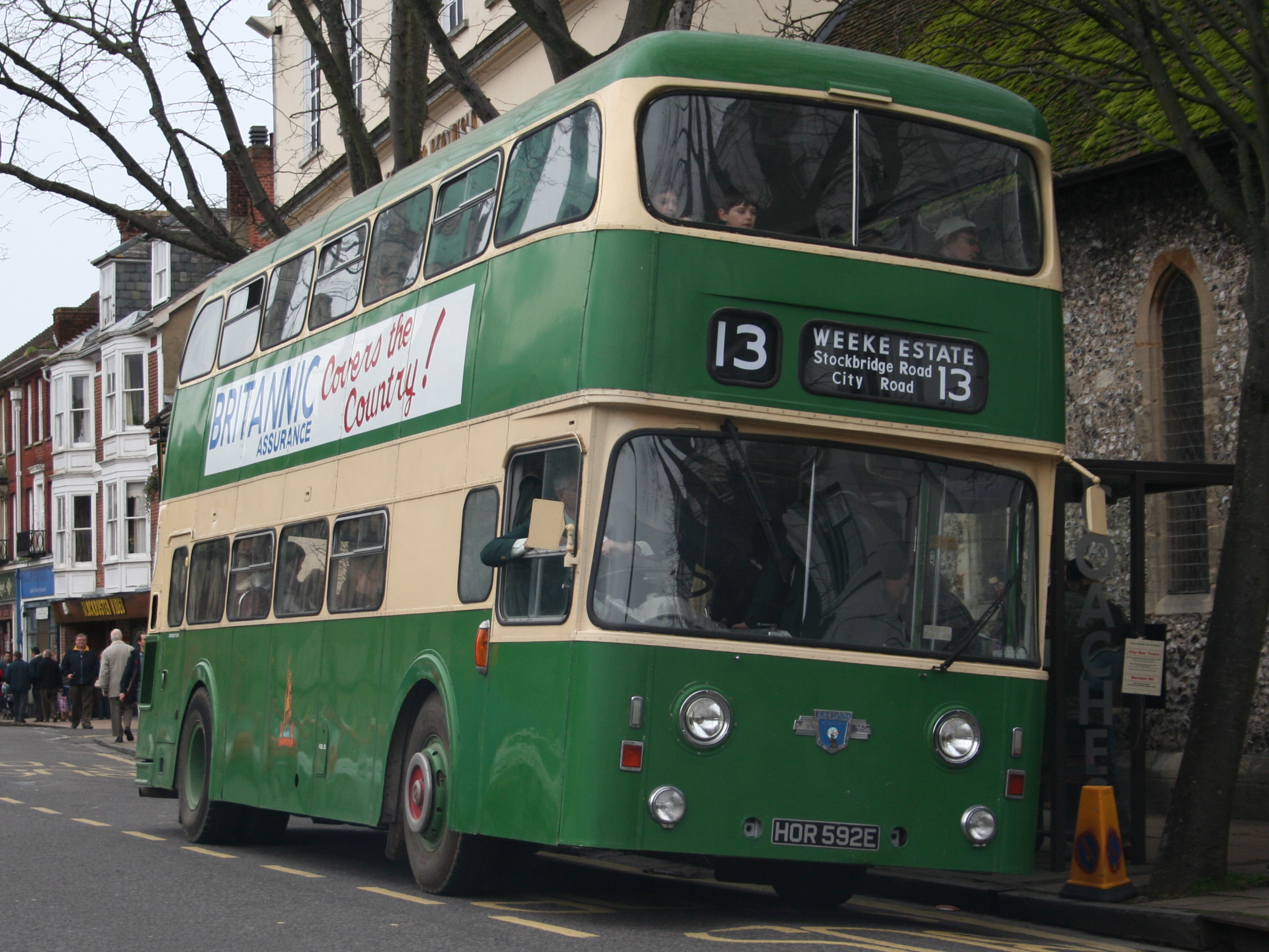 King Alfred 1967 Roe bodied Leyland Atlantean